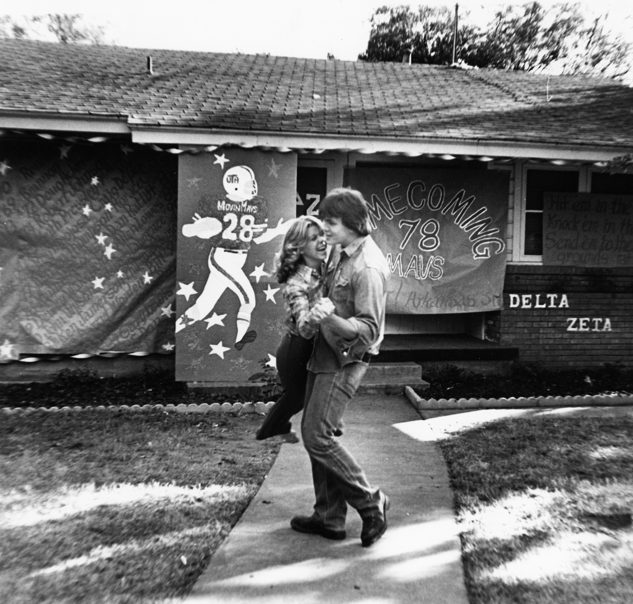 University of Texas at Arlington homecoming; two students dance in yard outside Delta Zeta house.